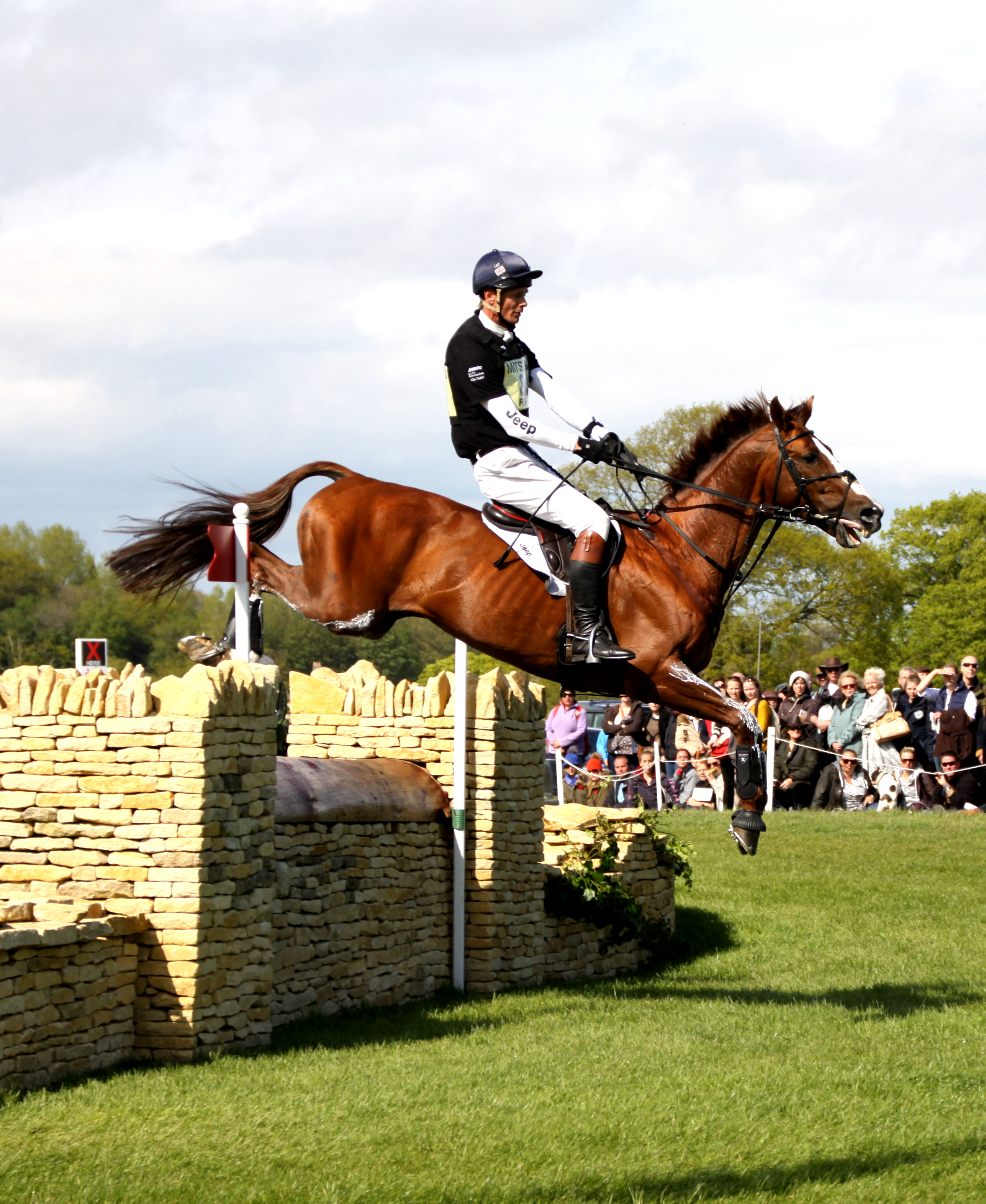 This is William Fox-Pitt on Chilli Morning at Badminton Horse Trials 2015, jumping cross country fence 6 on his way to winning the championship